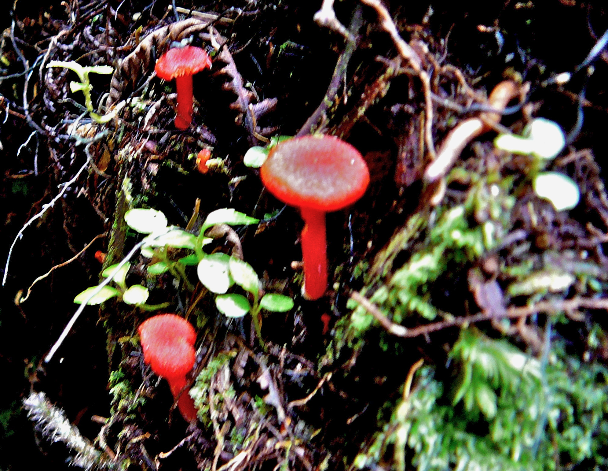 red wax gill fungus growing on fallen tree trunk